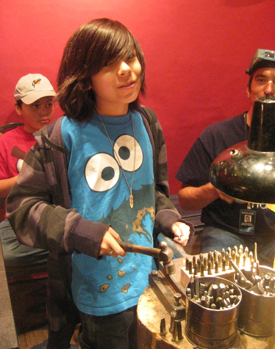 Son of Kenneth Johnson (Seminole-Muscogee Creek), a young jeweler, in Santa Fe, New Mexico